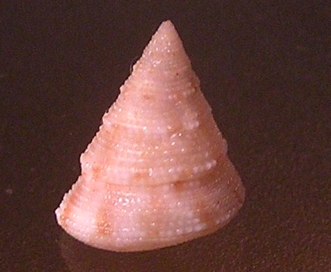 Calliostoma scobinatum Adams in Reeve, 1854, a sea snail in the family Calliostomatidae; Philippines